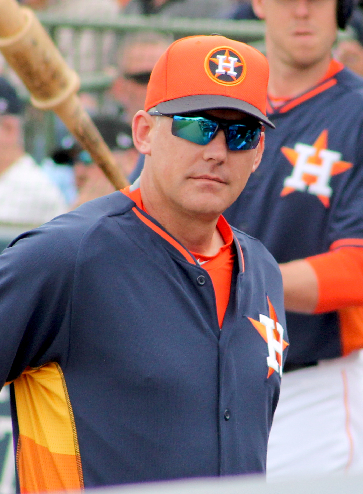 Professional baseball coach A. J. Hinch at spring training in March 2015.